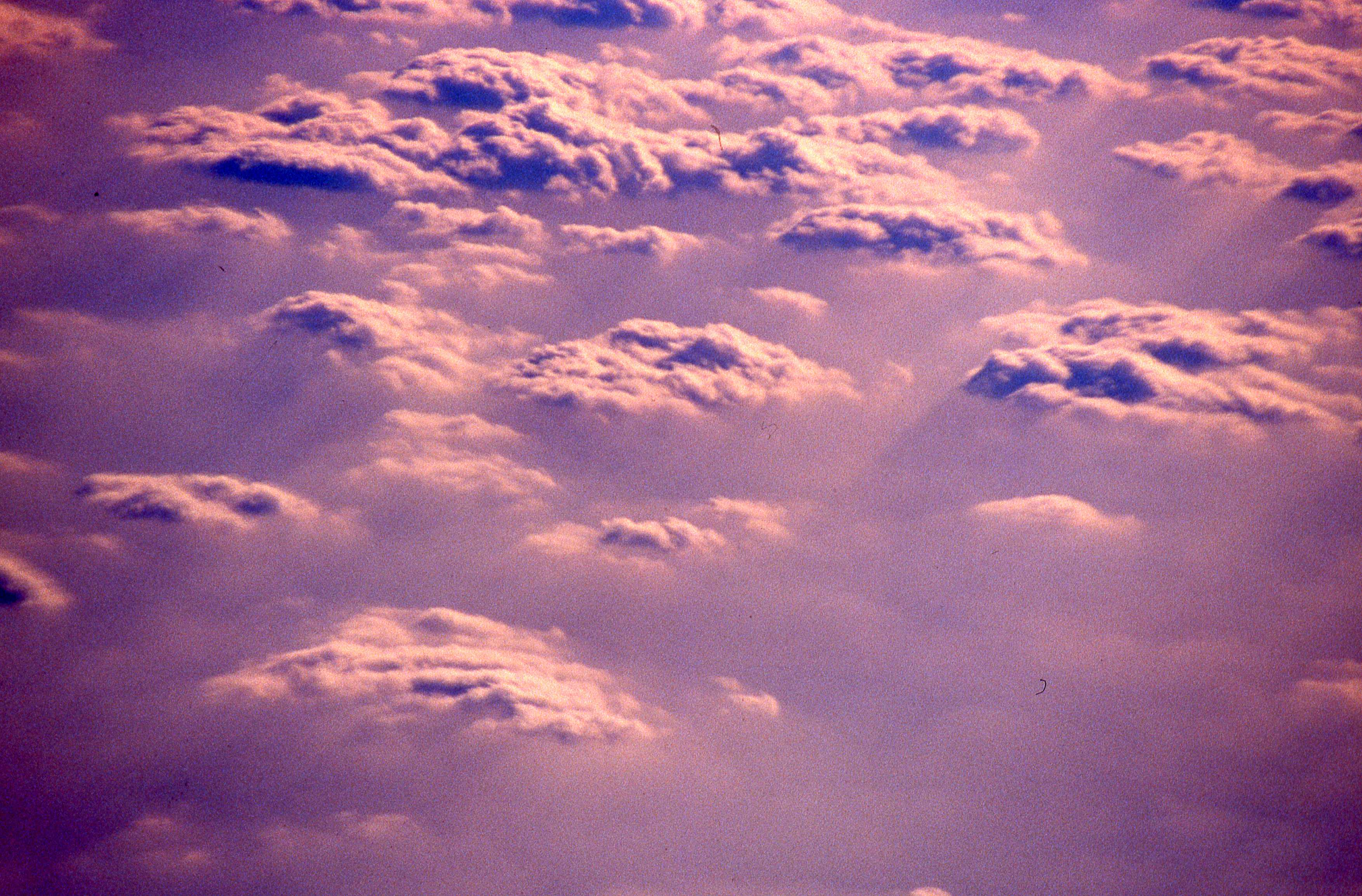 Clouds seen from aircraft over China.jpg